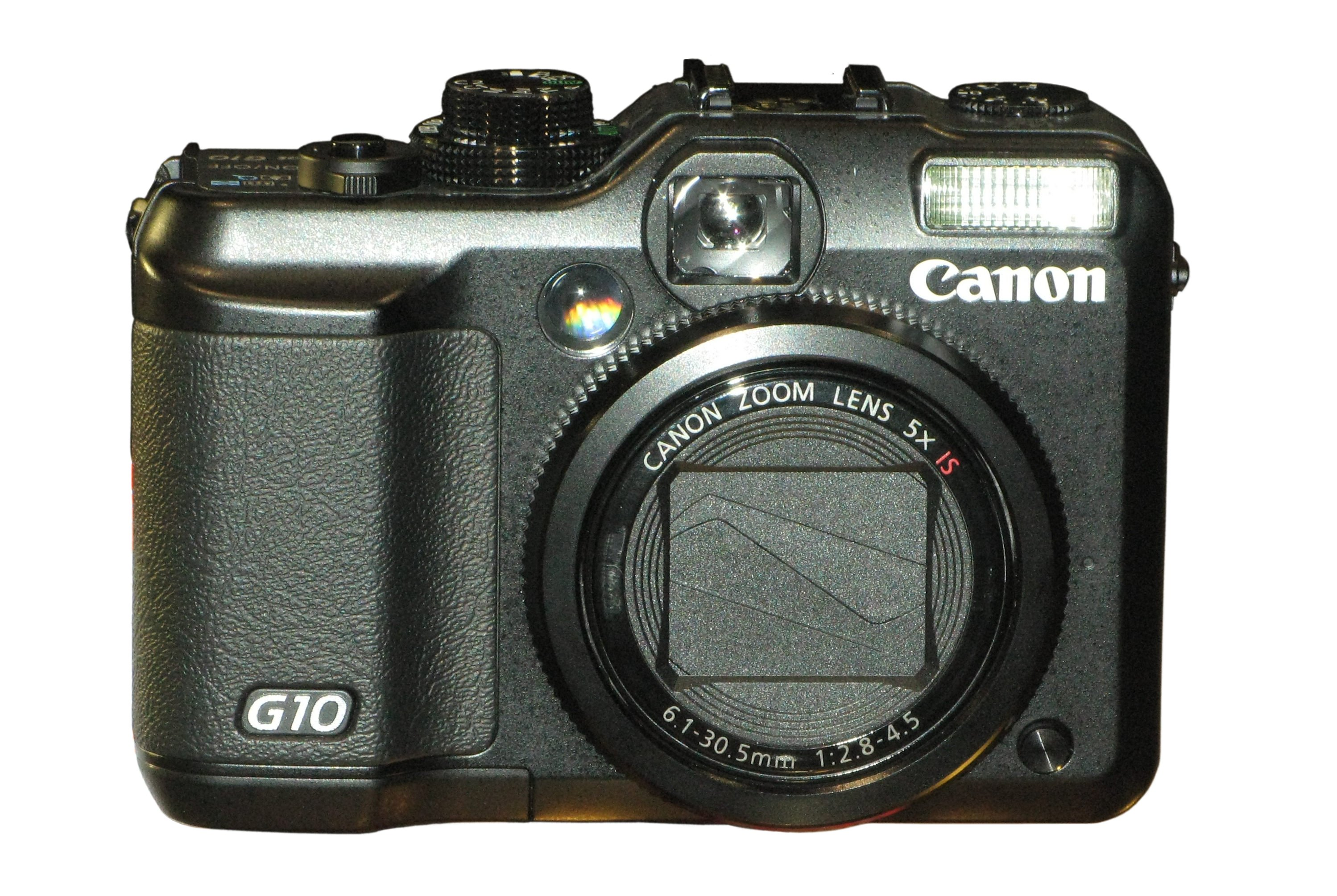 Canon PowerShot G10